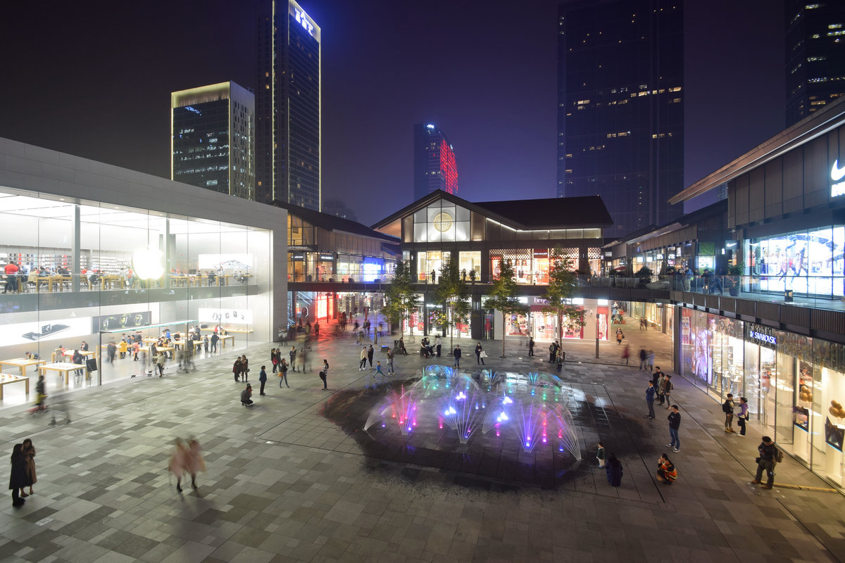 Night scene of East Square, Sino-Ocean Taikoo Li Chengdu